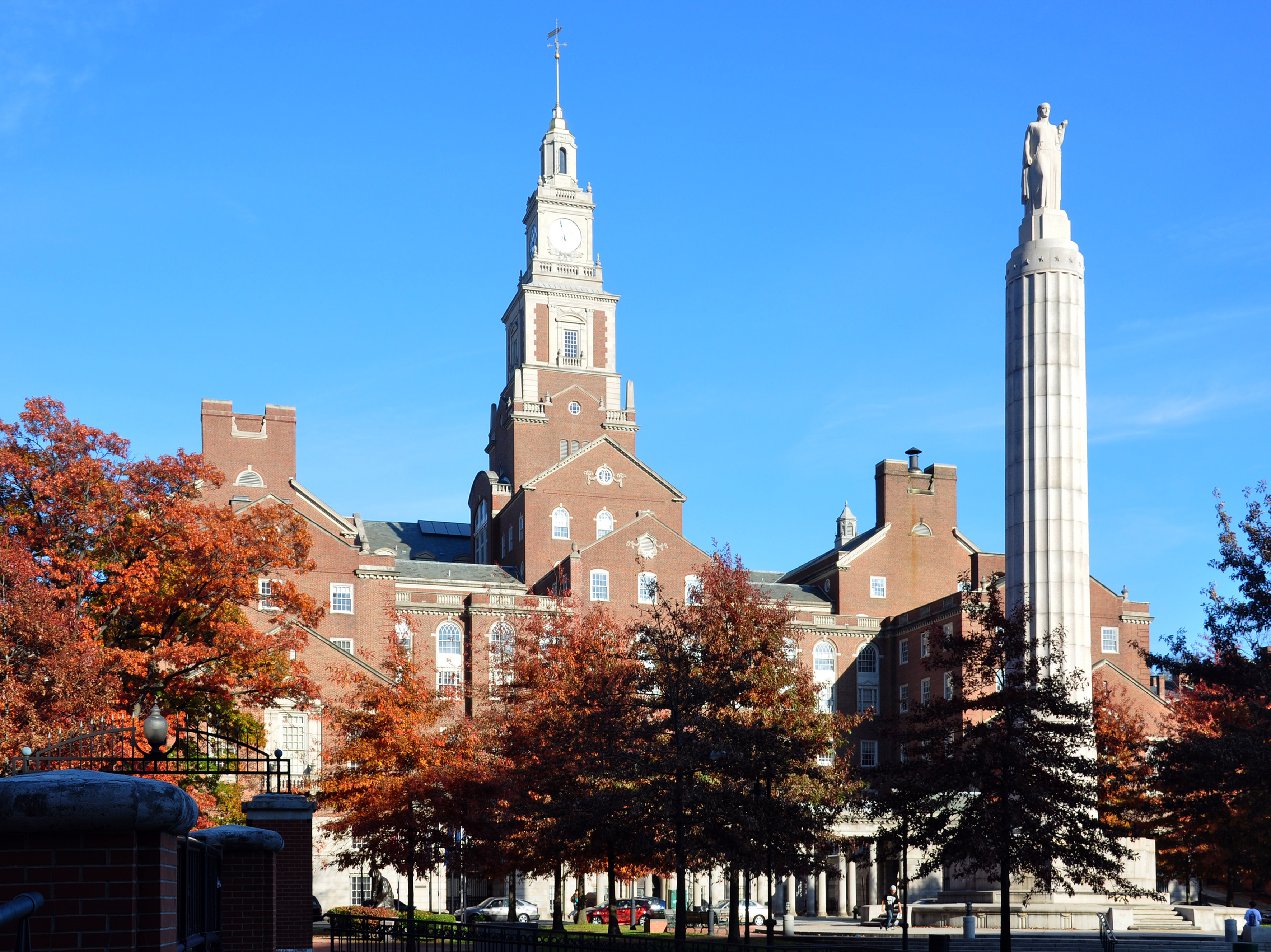 Rhode Island Supreme Court Superior Court Providence 2009